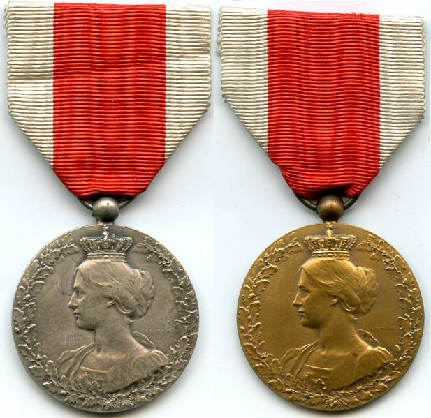 Commemorative Medal of the National Committee for Aid and Food, medals 3rd and 4th classes. Belgium. 1919